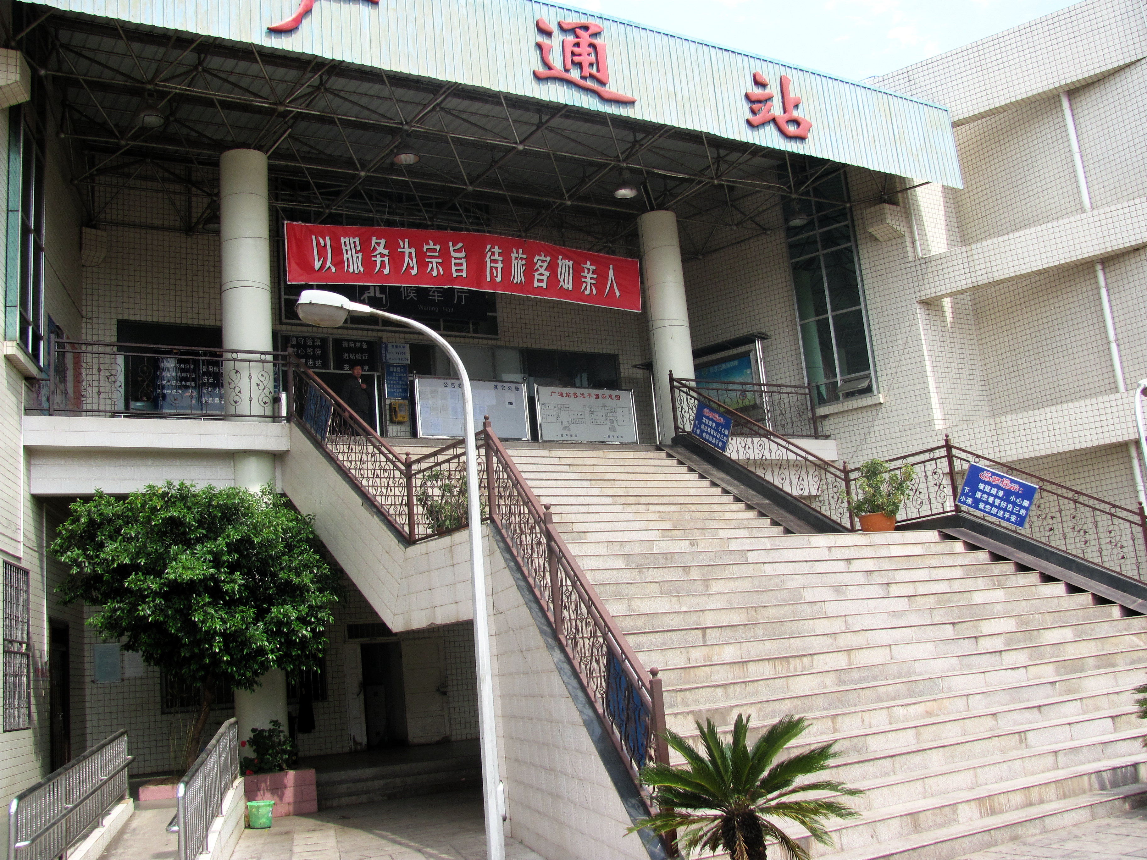 Guangtong Railway Station